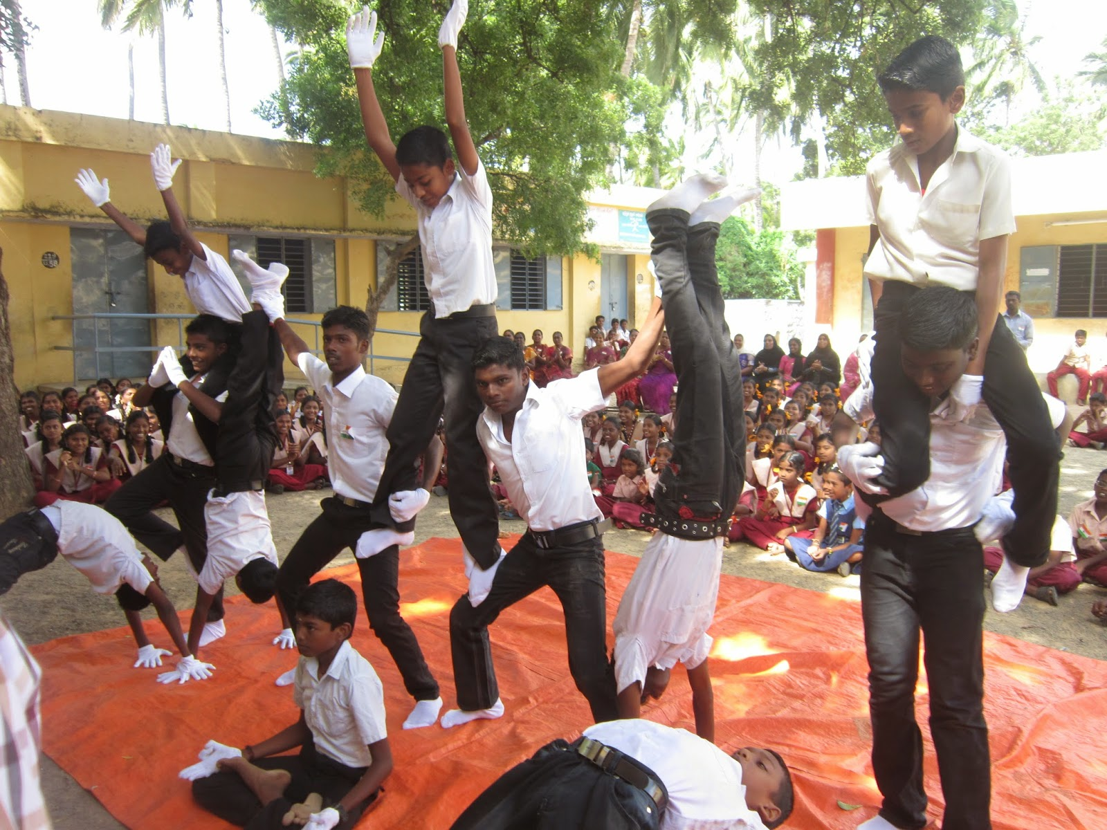 school students actvity